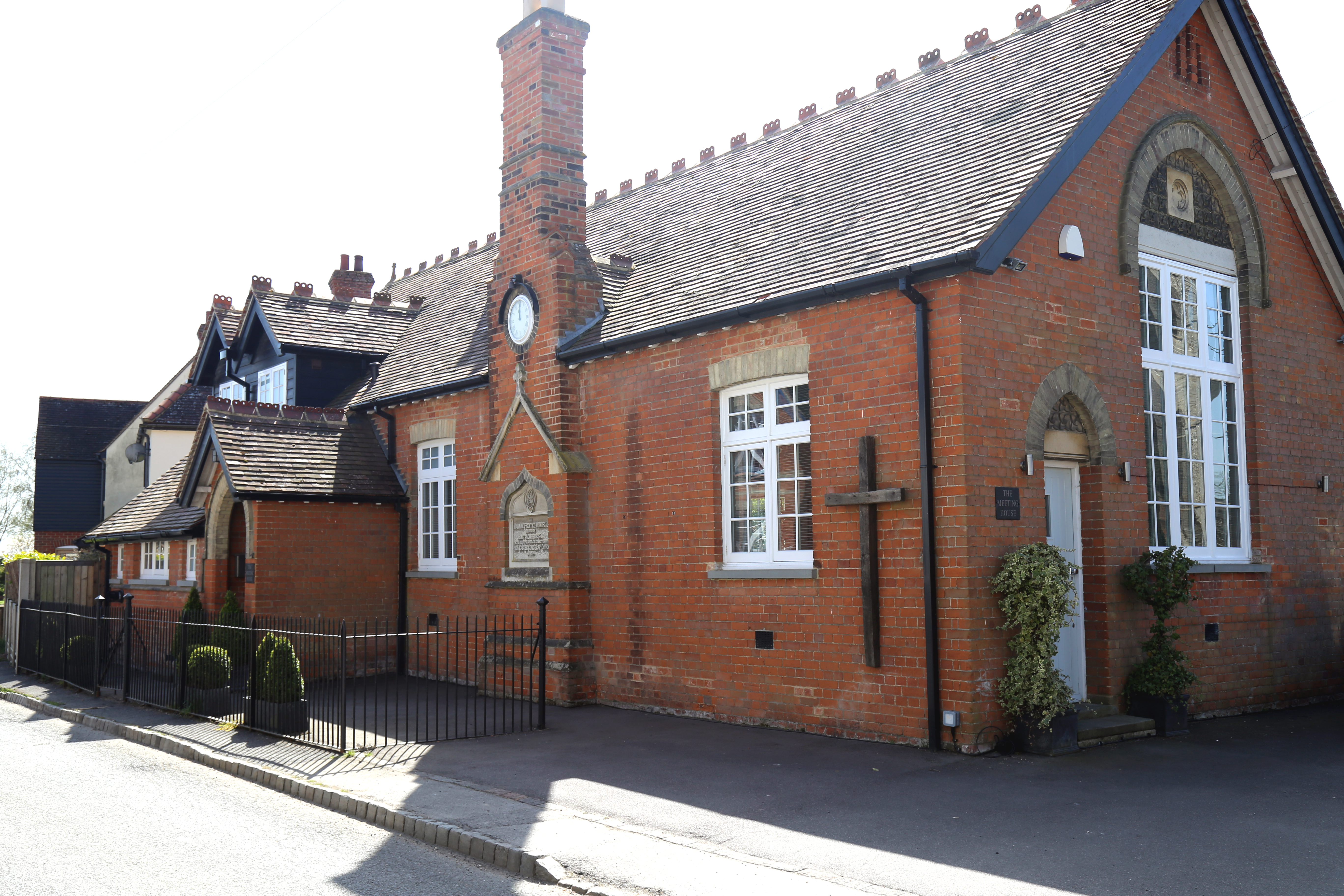 Manning Prentice Memorial School (c.1893), on The Street at High Easter, Essex, England